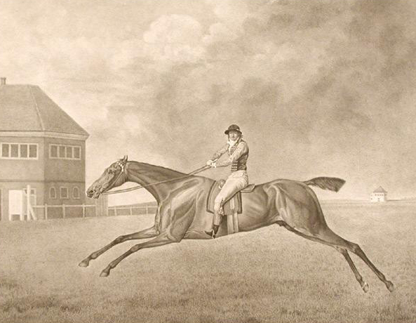 Baronet